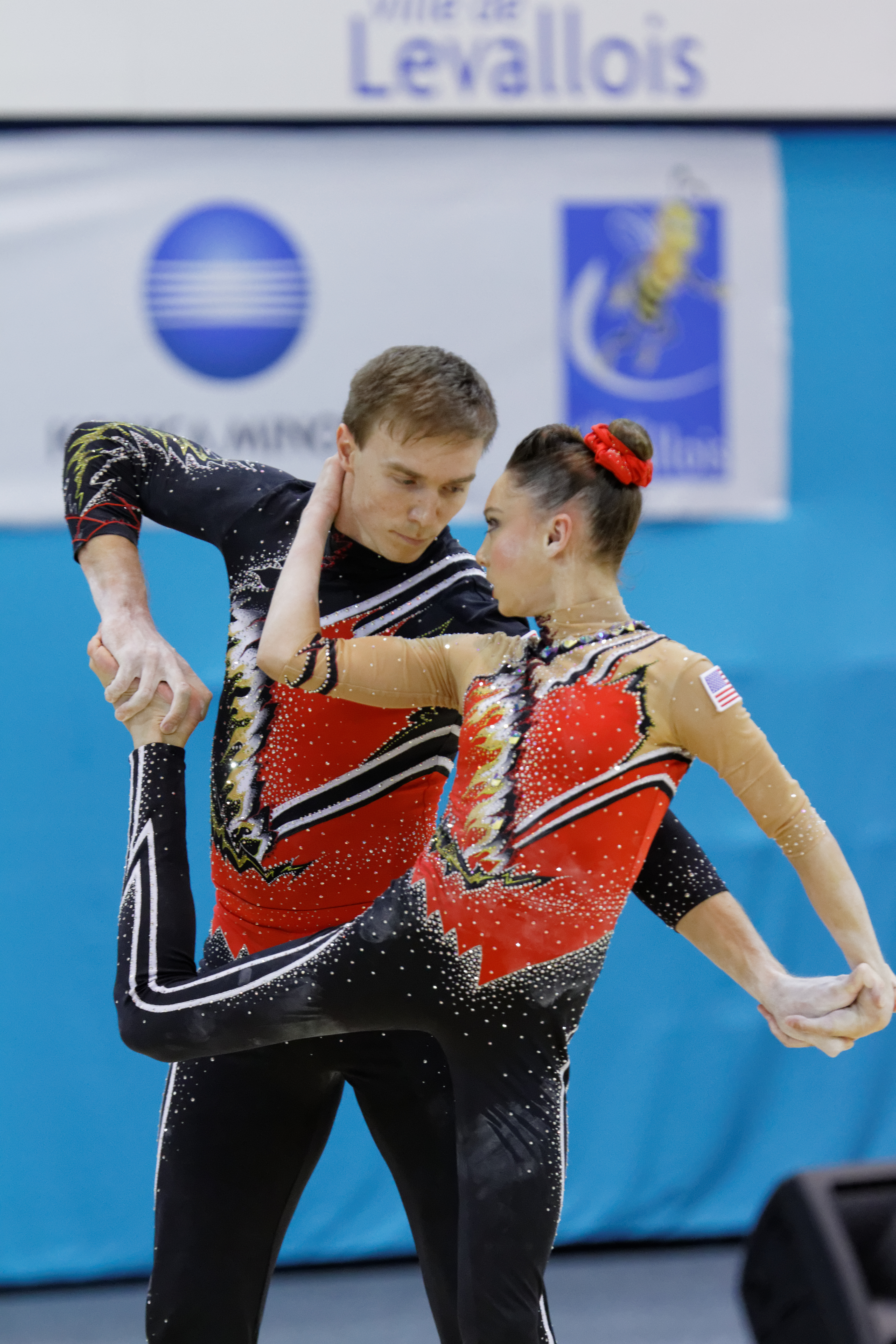 2014 Acrobatic Gymnastics World Championships, 10th-12 July, Levallois-Perret, France. Qualifications: mixed pair. USA 1.